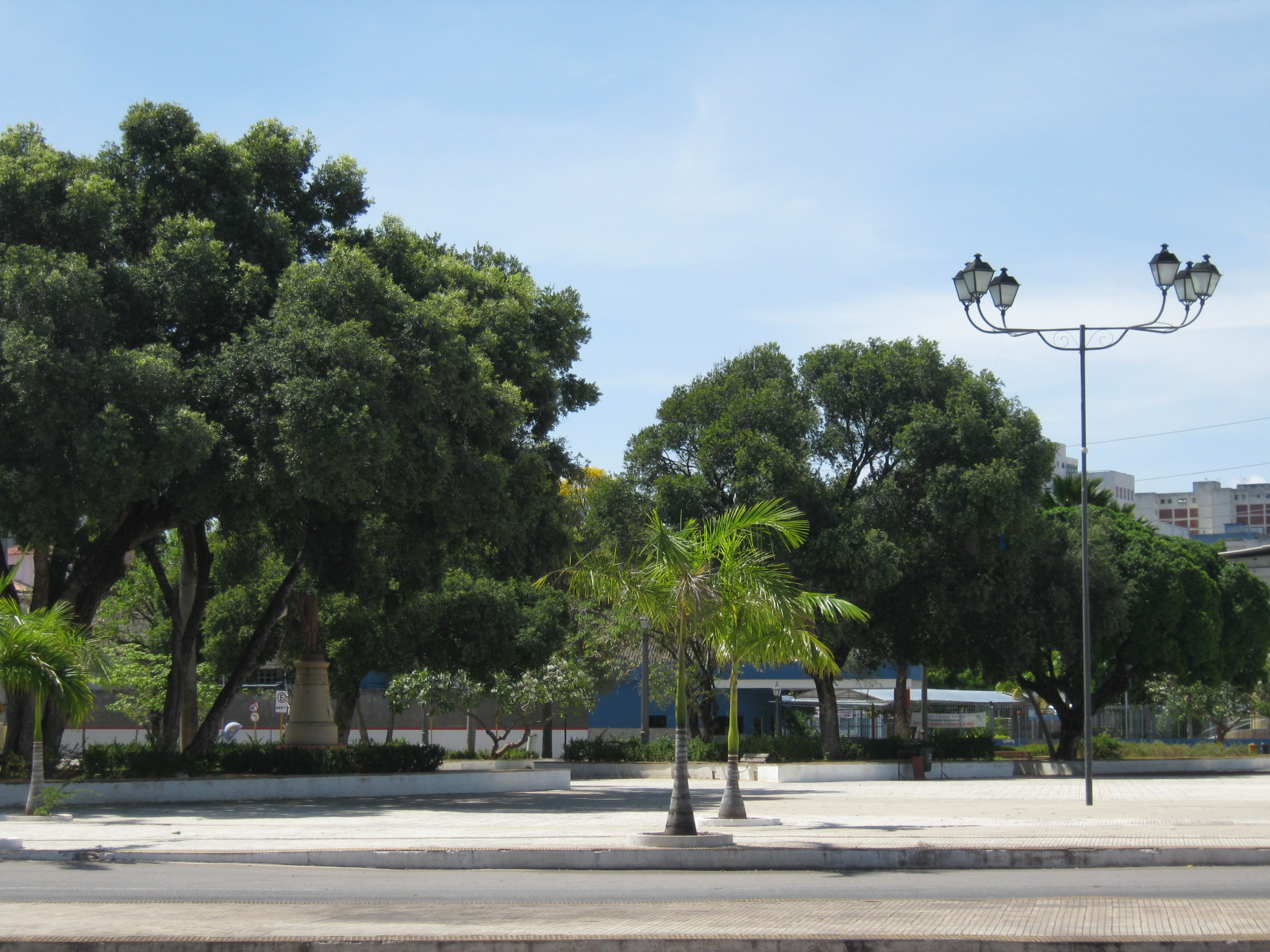 Augusto Severo Square, Ribeira Histórica, Natal, Brazil